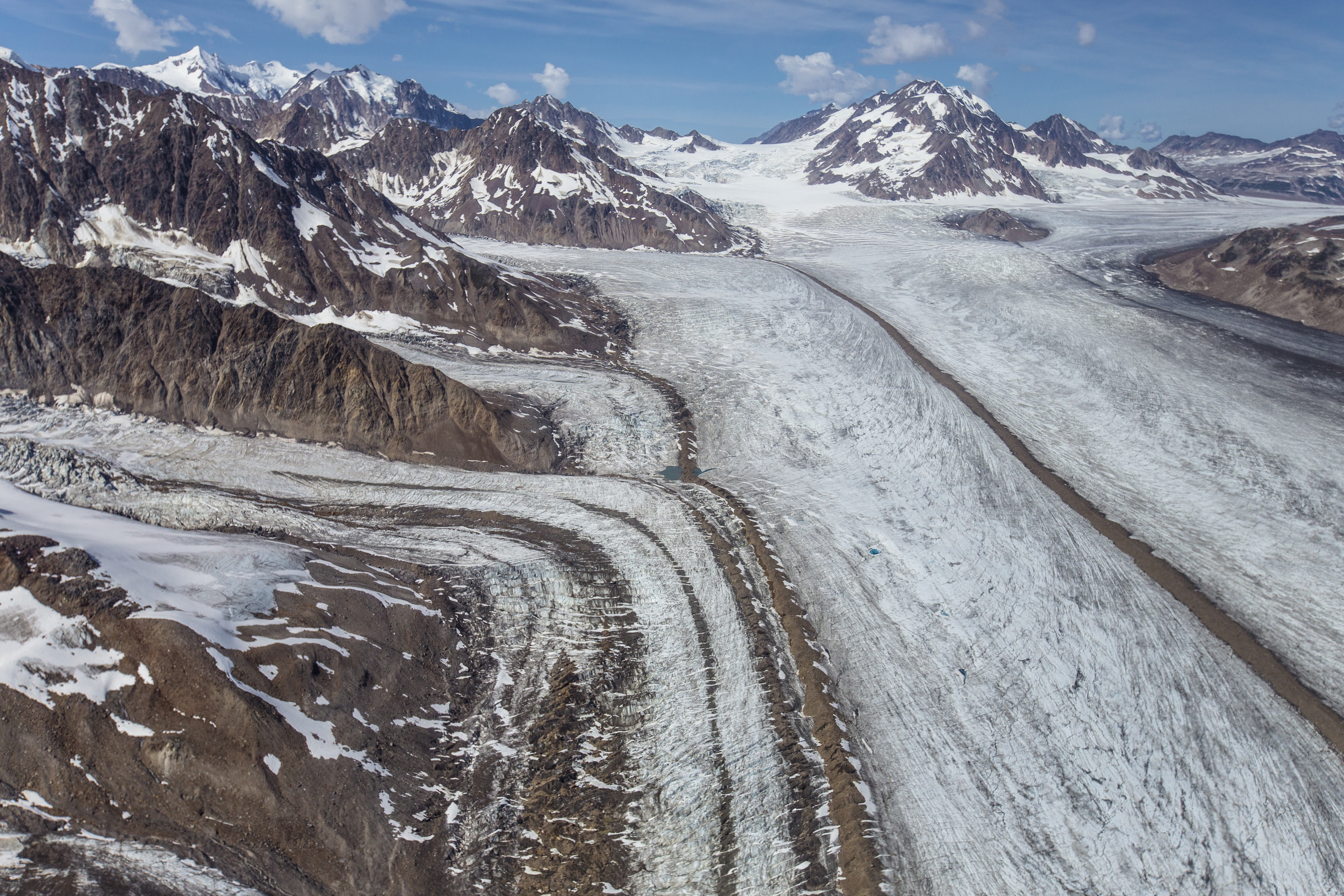 NPS / Jacob W. Frank Flight paths